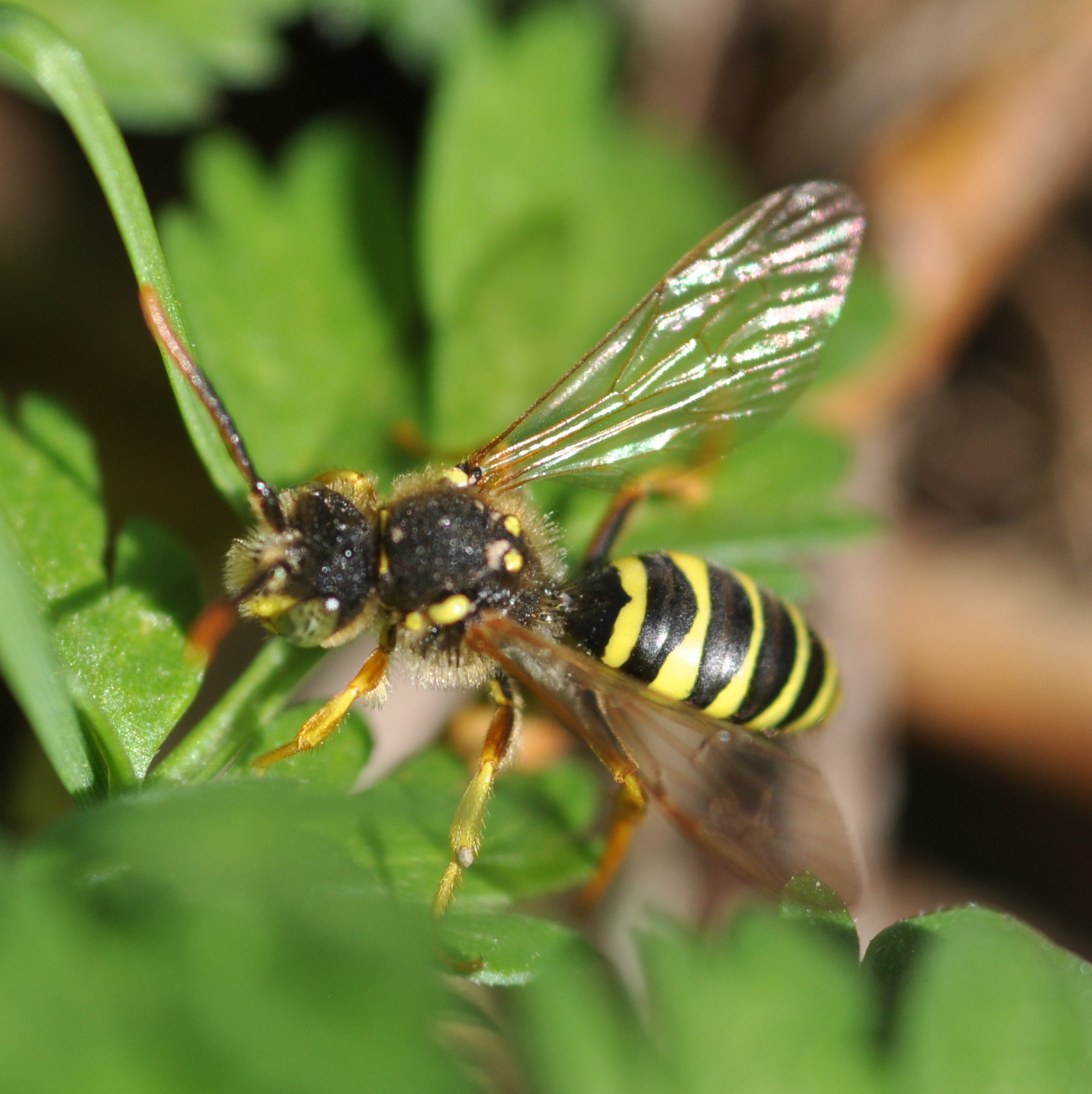 Nomada goodeniana male in Kirchwerder, Hamburg.